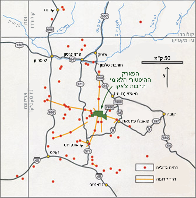 Prehistoric roads and great houses in the San Juan Basin.